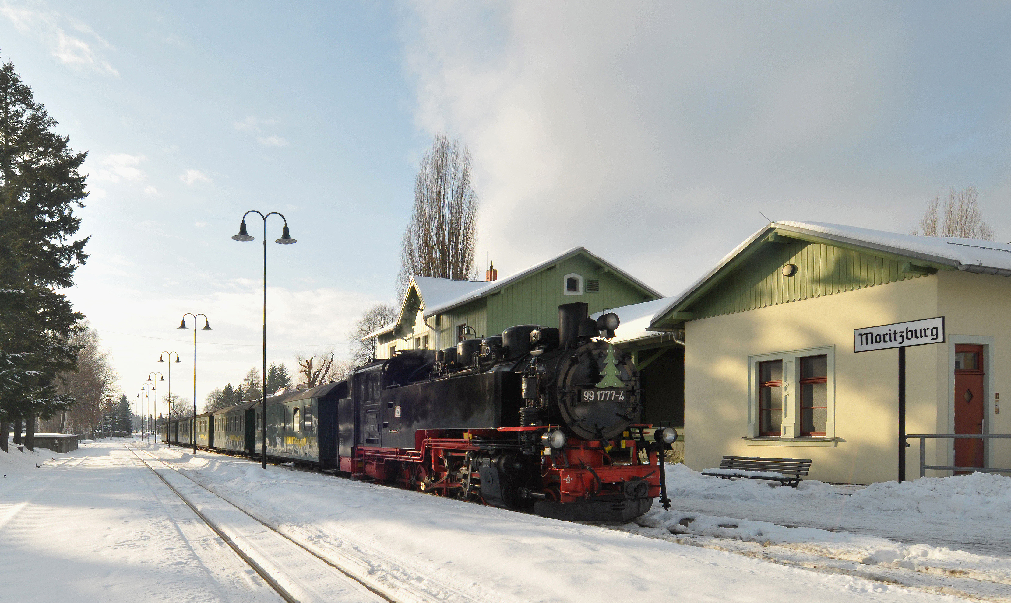 This Steam locomotive, No. 991777-4, was built in 1953 by VEB Lokomotivbau Karl Marx Babelsberg (LKM) in Potsdam-Babelsberg, Brandenburg, Germany. The steam locomotives of DR Class 99.77-79 were ordered by the Deutsche Reichsbahn in East Germany after World War II. They were narrow gauge locomotives with a 750 mm rail gauge and built for the narrow gauge lines in Saxony. The locomotives were largely identical to the DRG Class 99.73–76 standard locomotives built in the 1930s. Today the locomotive is used on the Radebeul–Radeburg railway (a German the heritage railway), also known as the Lößnitzgrundbahn (Lössnitzgrund Railway). Primarily a tourist attraction, the Radebeul-Radeburg railway maintains a year-round timetable and runs between Radebeul East station and the small towns of Moritzburg and Radeburg north of Dresden. Scheduled traffic on the line is maintained by Sächsische Dampfeisenbahngesellschaft mbH (former BVO Bahn), using steam locomotives built in the 1950s.